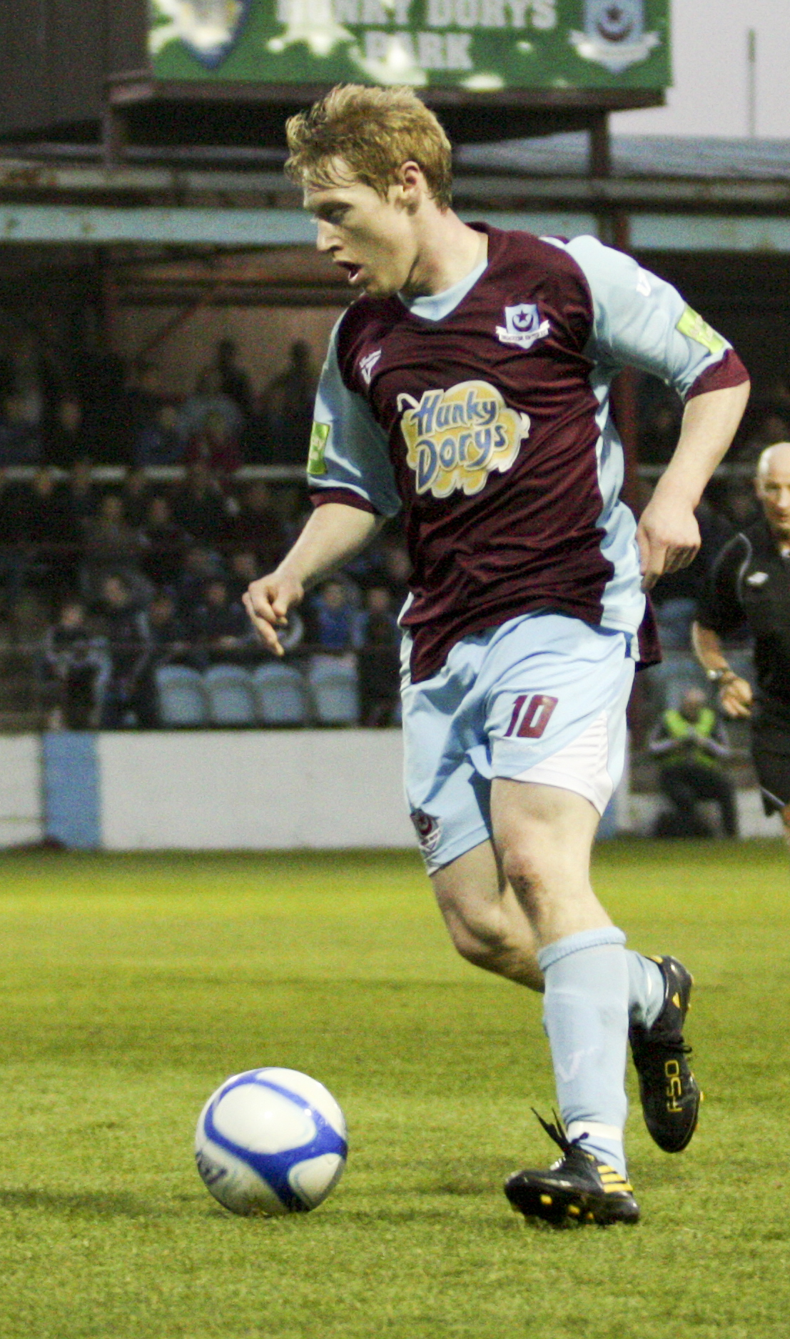 Darragh Hanaphy in action for Drogheda United FC against Galway United FC at United Park, Drogheda 2011